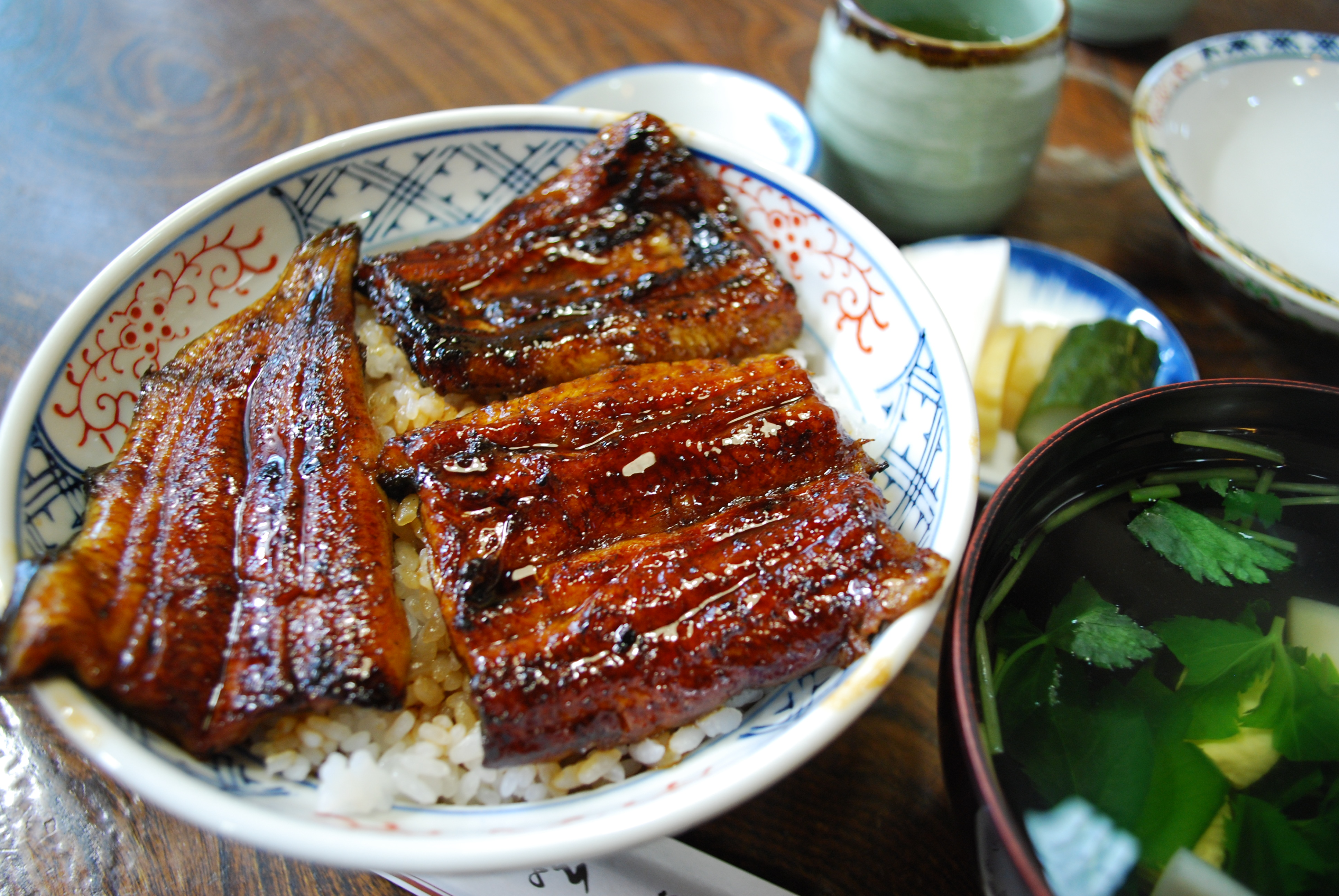 Eel kabayaki,Una-don,Katori-city,Japan